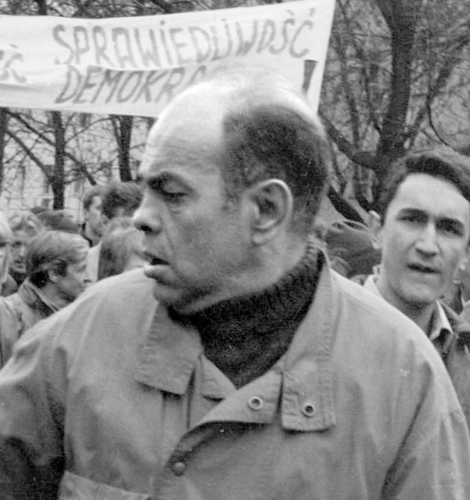 Black - white photograph of the 1989 May 1 demonstration Day with the participation of the opposition and Jacek Kuron